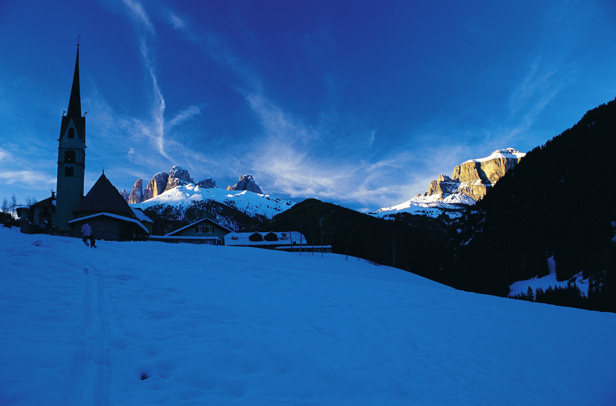 Sunrise at Canazei.